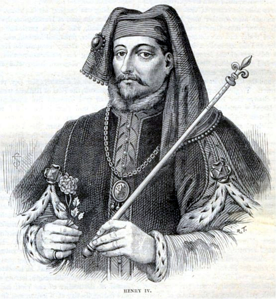 Henry IV of England